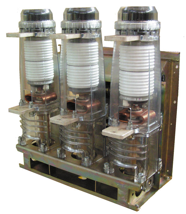 Vacuum breaker - HV switch in which the vacuum is a means to extinguish the arc. A vacuum switch is designed for switching (turn-off transactions) of an electric current - Rated currents and short circuit (fault) in electric circuits (translation Google)